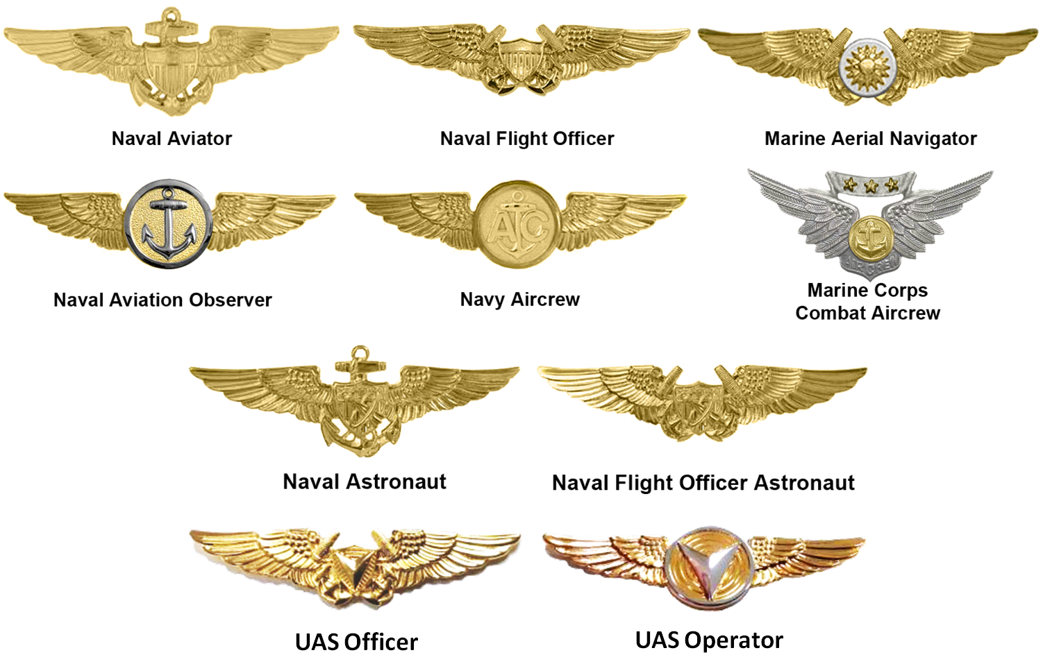 Image of Aviation Insignia used in the US Marine Corps. For use in USMC articles concerning awards.